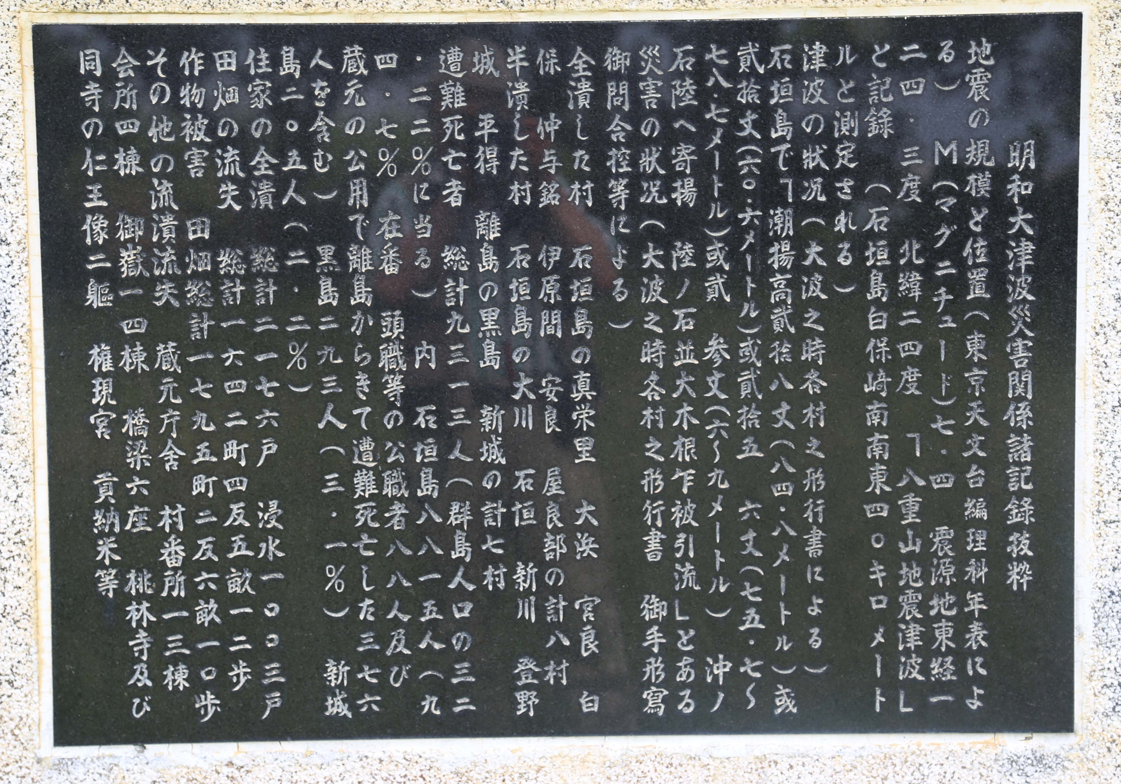 Text inscription excerpted from the record of the Meiwa Tsunami.